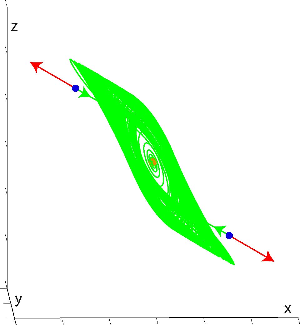 Self-excited attractor has a basin of attraction which is connected with an unstable equilibrium. Thus self-excited attractors can be localized numerically by standard computational procedure, in which after a transient process a trajectory, started from a point of unstable manifold in a neighborhood of equilibrium, reaches a state of oscillation therefore one can easily identify it.